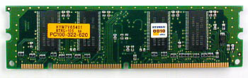 The RAM memory of indication DIMM. Česky: Paměť RAM s označením DIMM.